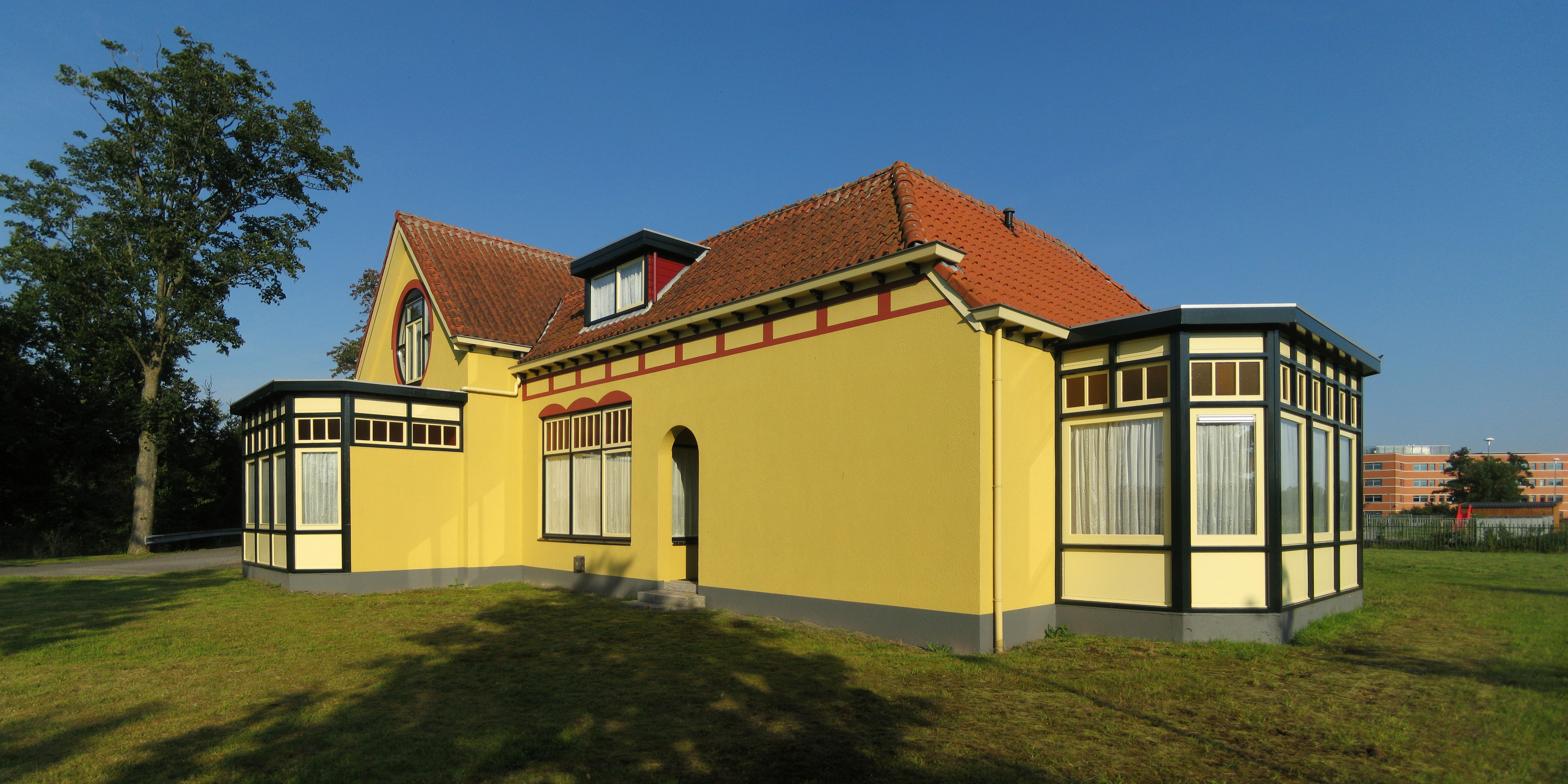 Former pub in the Dutch city of Groningen.